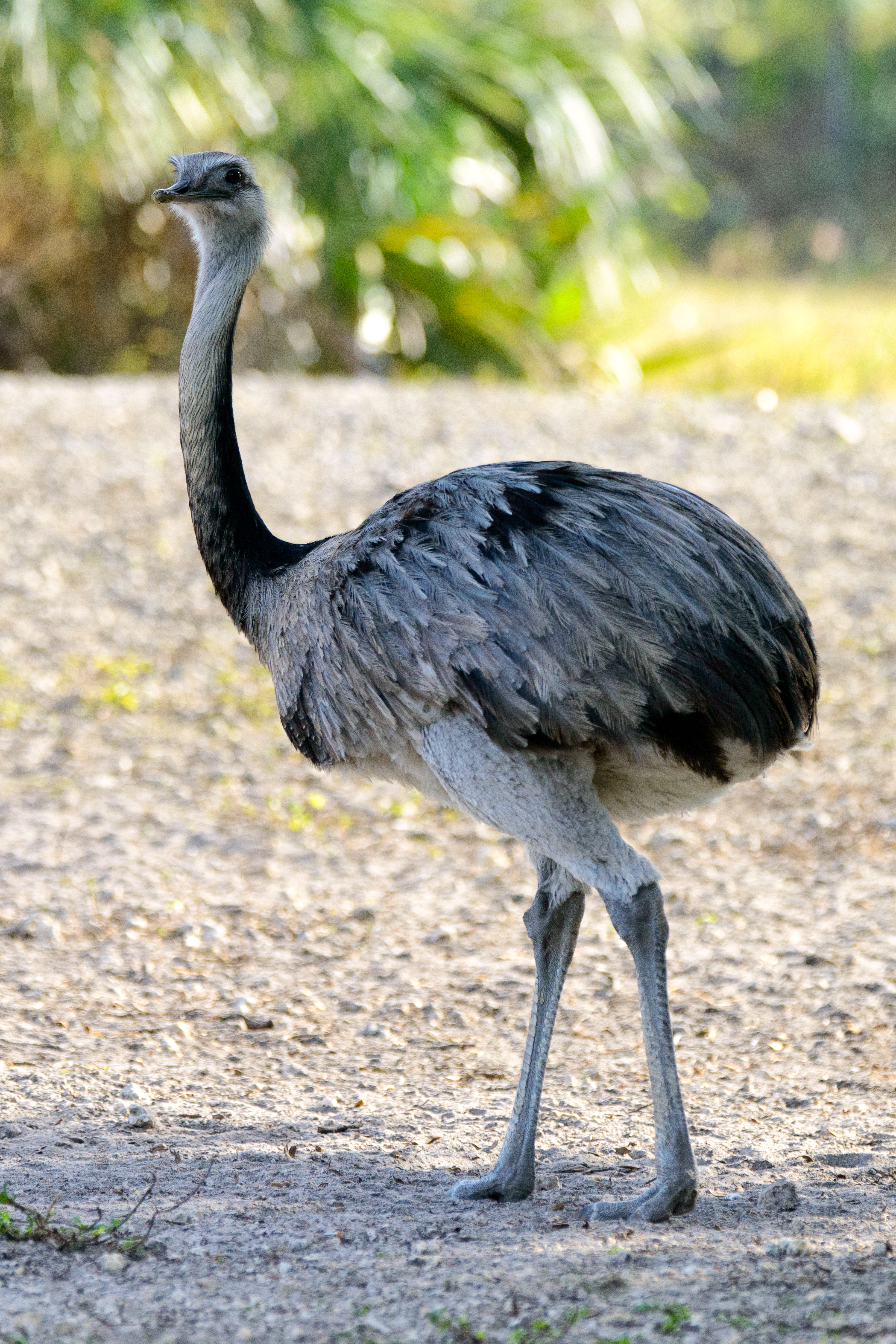 Rhea americana: Common Rhea